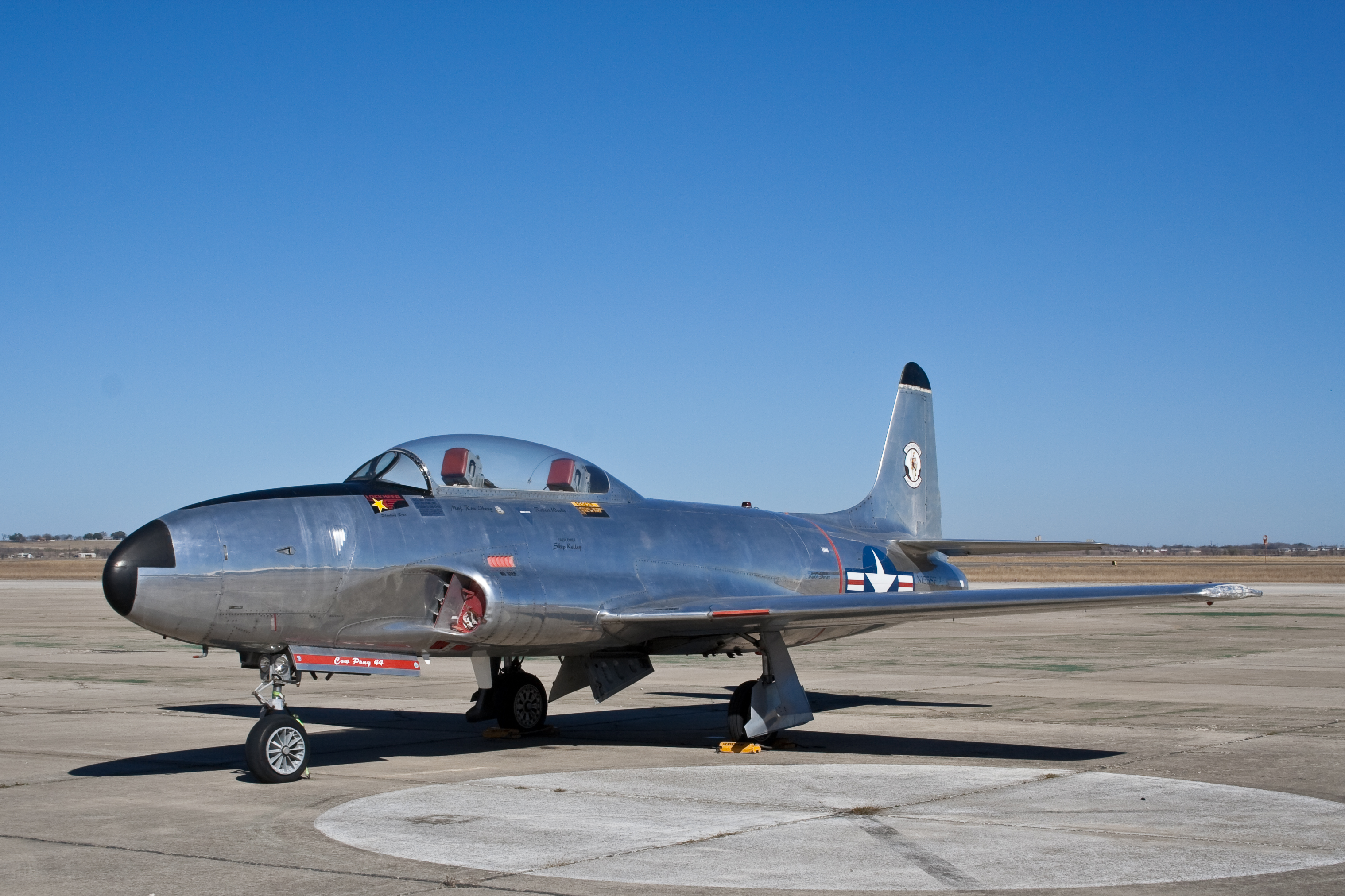 Lockheed T-33 Shooting Star belonging to the Central Texas wing of the Commemorative Air Force in San Marcos, Texas, USA.